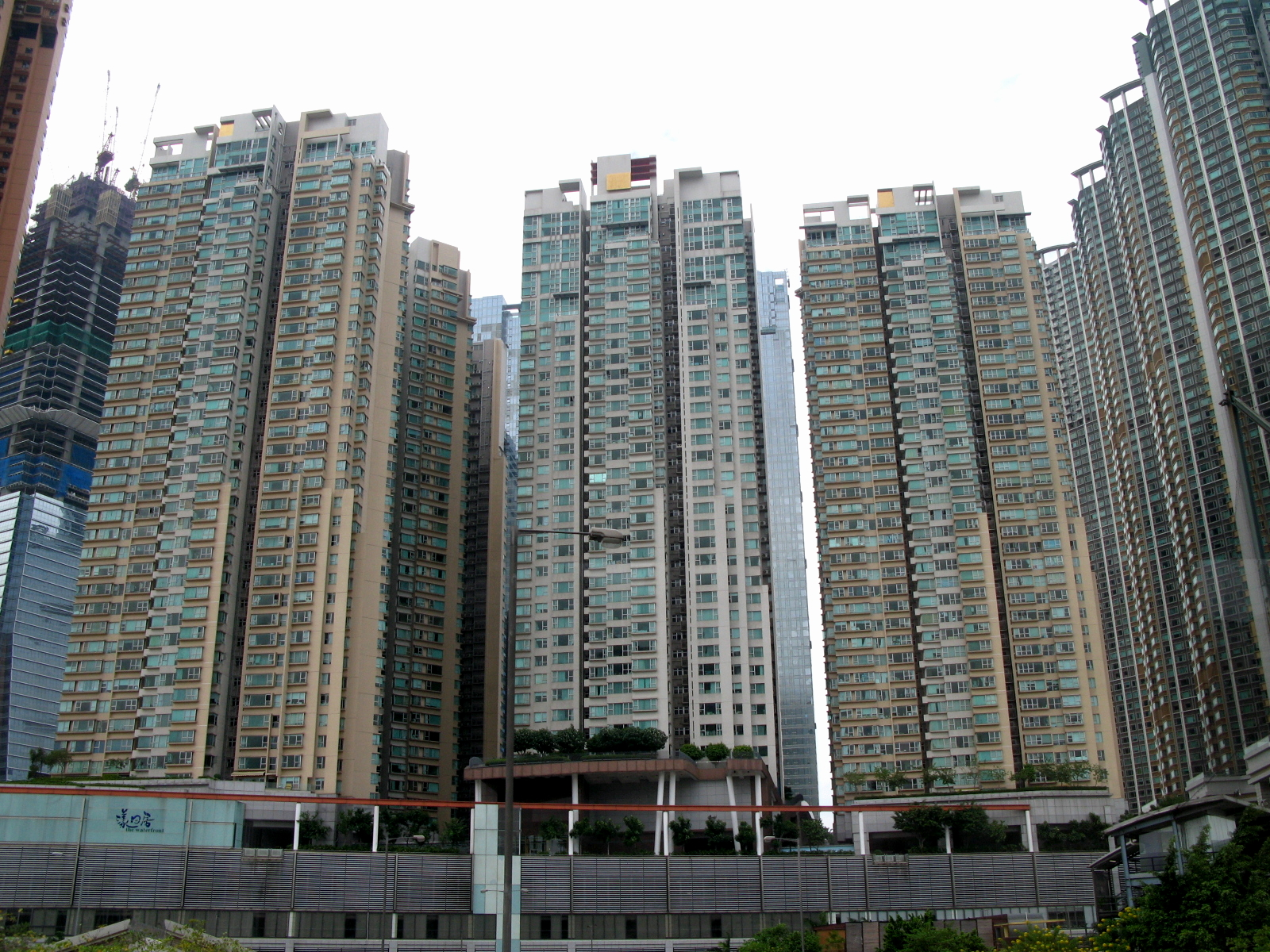 九龍區 Union Square 漾日居 Waterfront